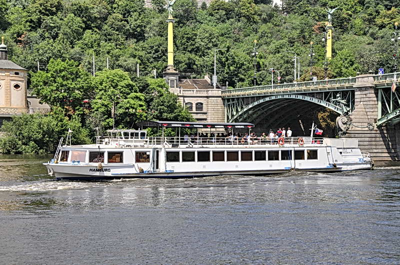 Boat Hamburg